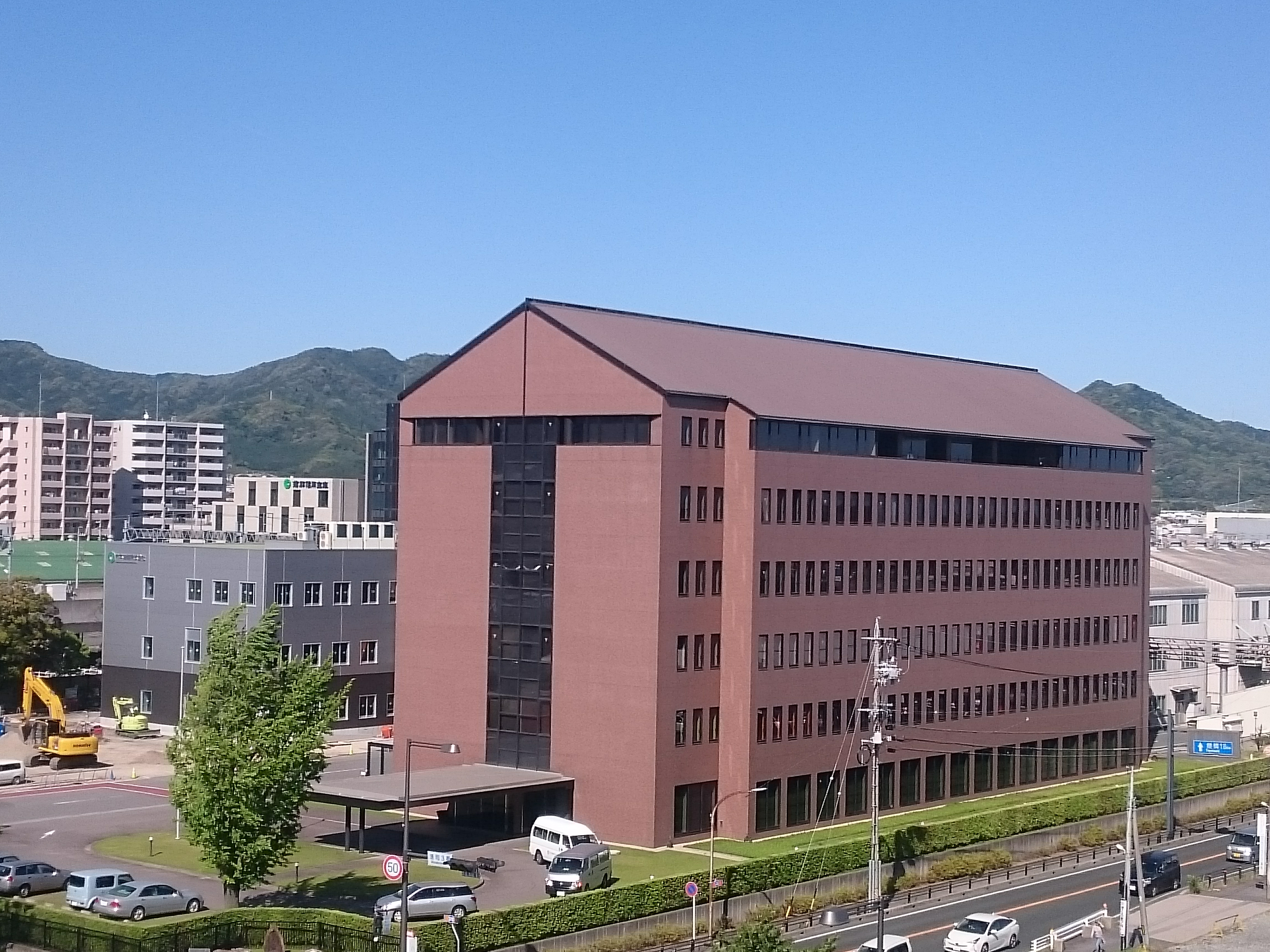 Takemoto Oil & Fat (竹本油脂) headquarters, located at 2-5 Minatomachi, Gamagori, Aichi, Japan